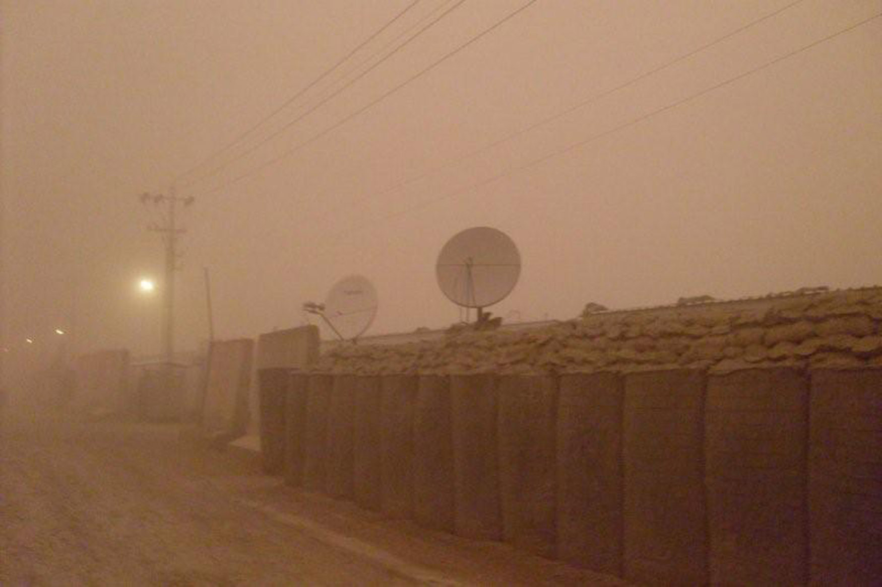 Sand and dust fills the air in and around Camp Taji, May 15. Desert dust, smoke from biomass burning, and anthropogenic air pollution are the three main particles that blow through the air at speeds up to 40 knots. The dust and sand makes it difficult for Soldiers to make their way around base. (U.S. Army photo/Capt. Xarhya Wulf)